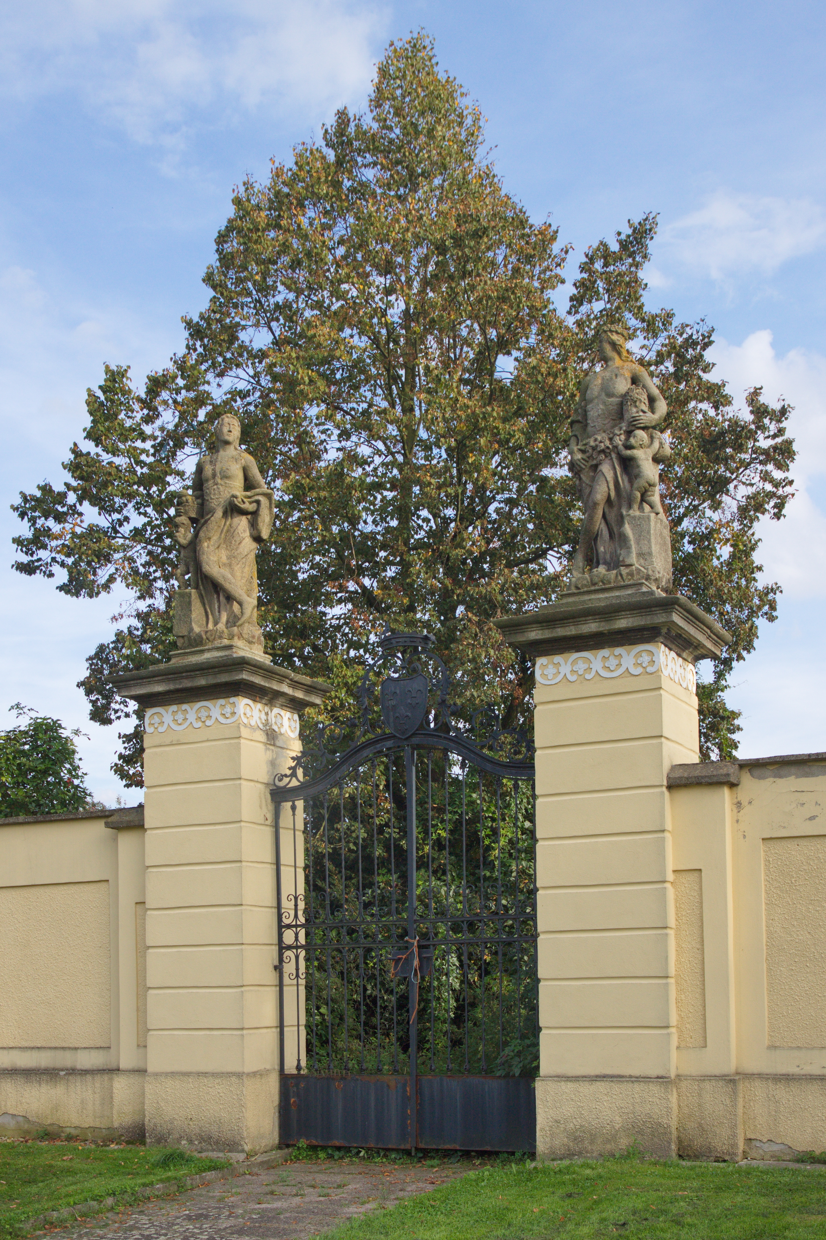 Gate. Castle, Nová Horka, Studénka. Moravian-Silesian Region, Czech Republic.